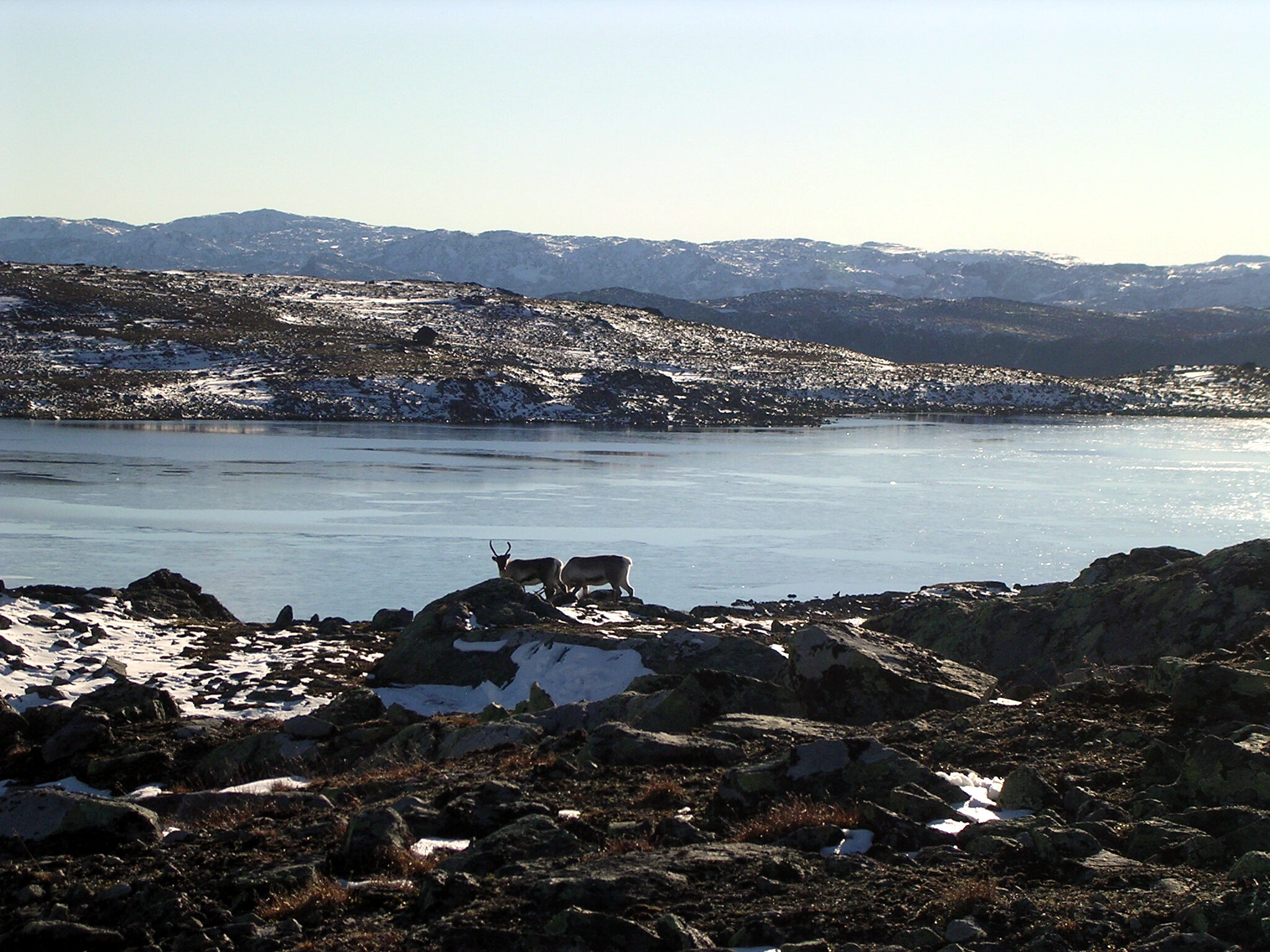 Reindeer, a wild tribe near the mountain Vesle Jukleeggji, Hemsedal, Norway.